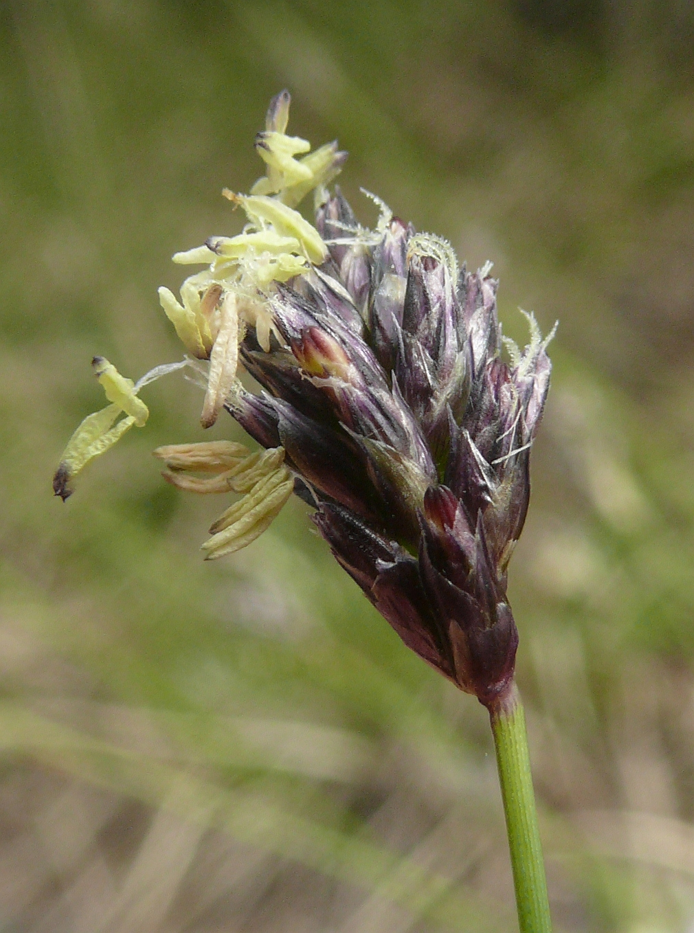 Sesleria albicans, Tauberland, Germany